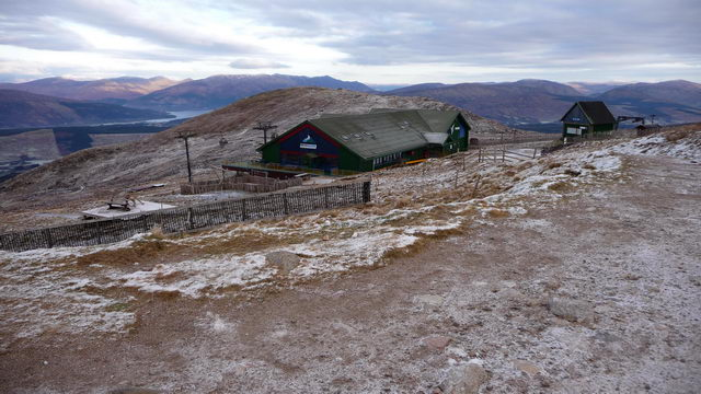 Snowgoose Restaurant The gondola ride from the ski centre at the foot of Aonach Mor finishes here and the various ski tows and chair lifts to the higher slopes start here.